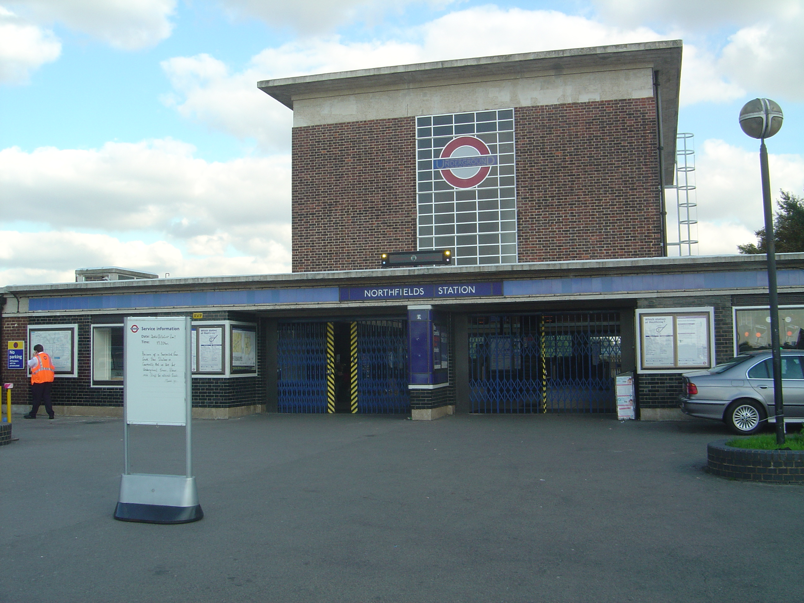 As if the trauma of trying to go shopping in central London wasn't enough to drive me insane on its own, there was a gas leak at Northfields station. The station was closed, boarded up as seen here, and on my way home the Picadilly line wasn't going any further than Acton Town, causing me another major pain in the neck. Argh!